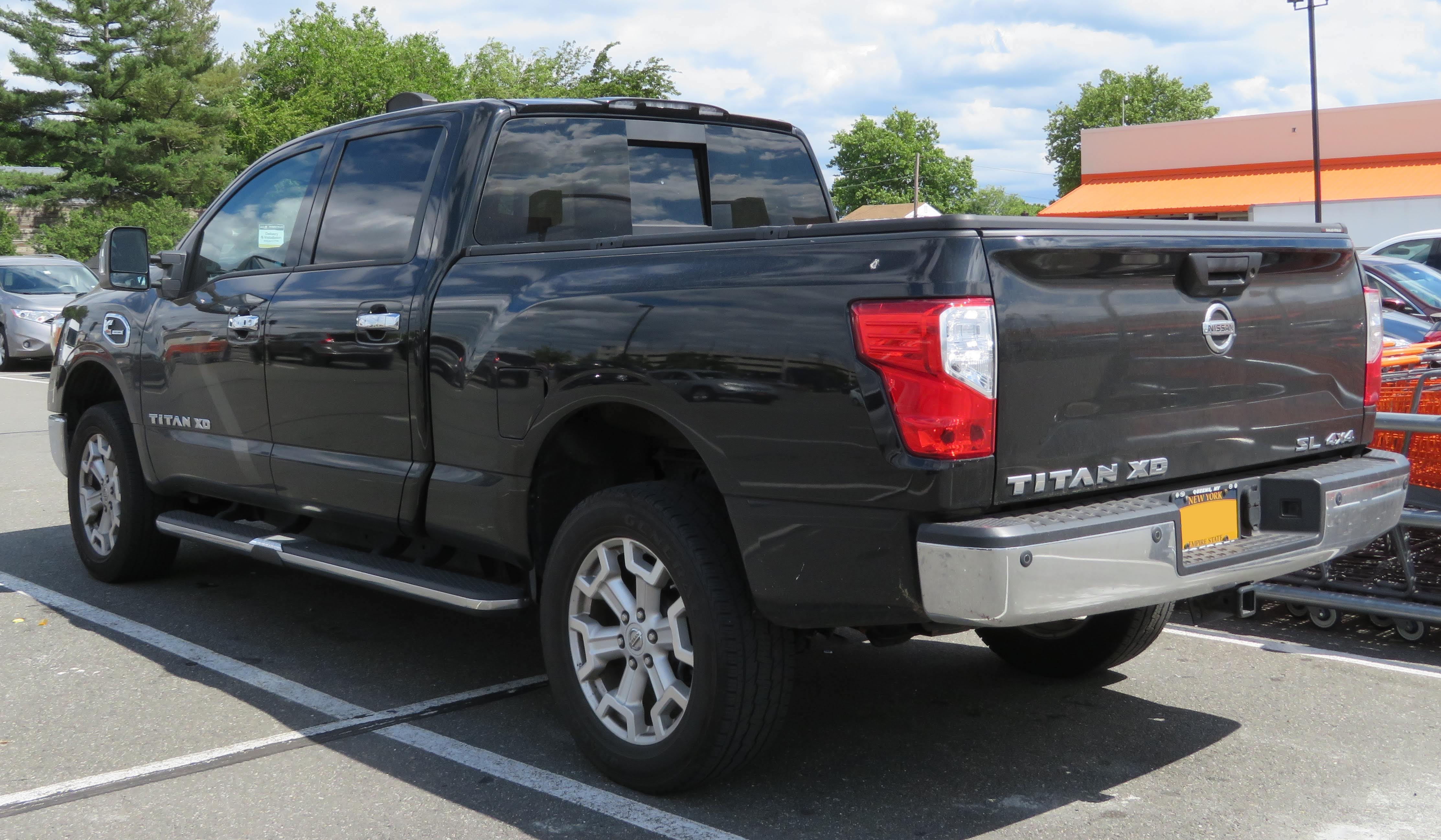 Photographed in Long Island, New York